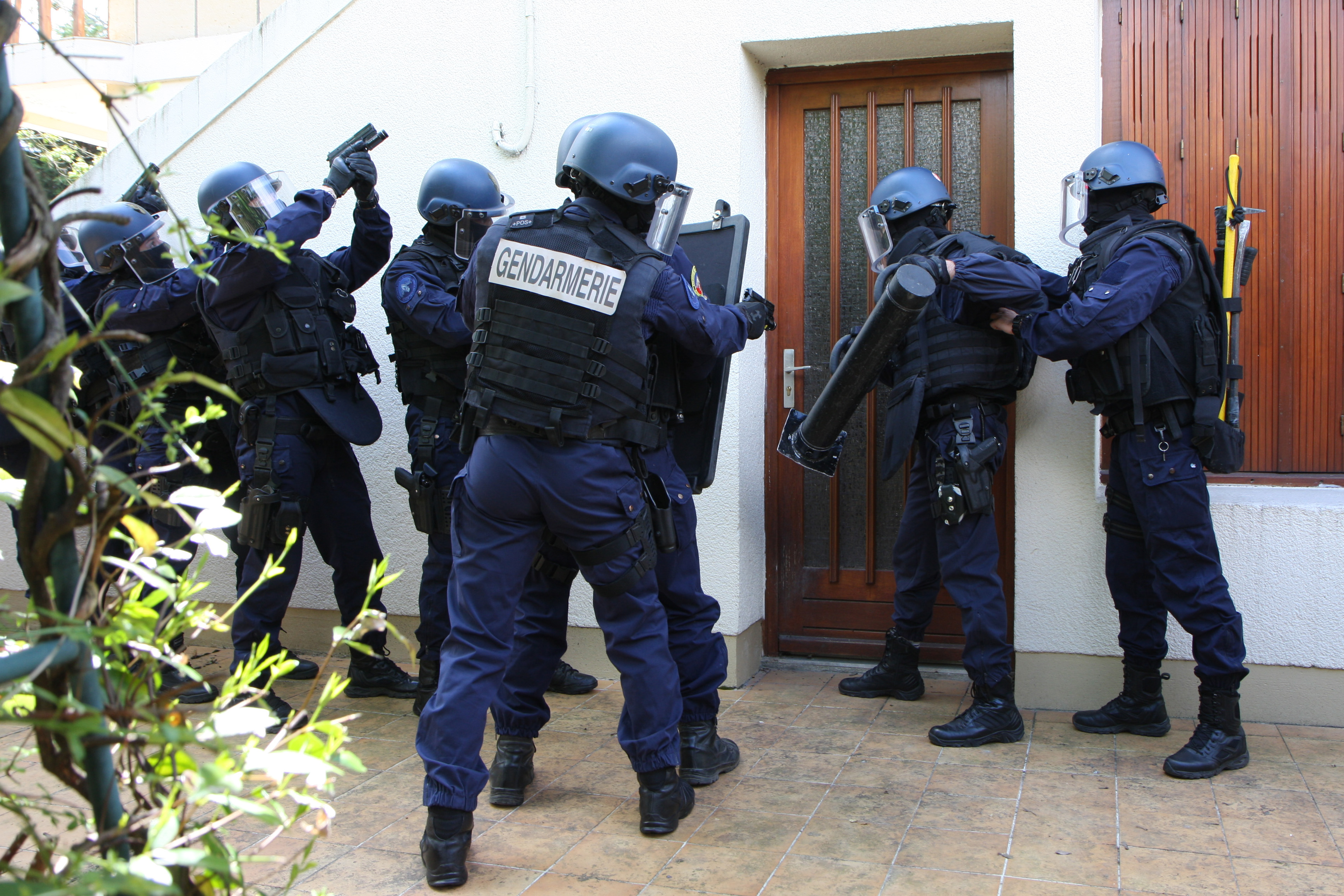 French Garde républicaine PIGR (SWAT) team practice